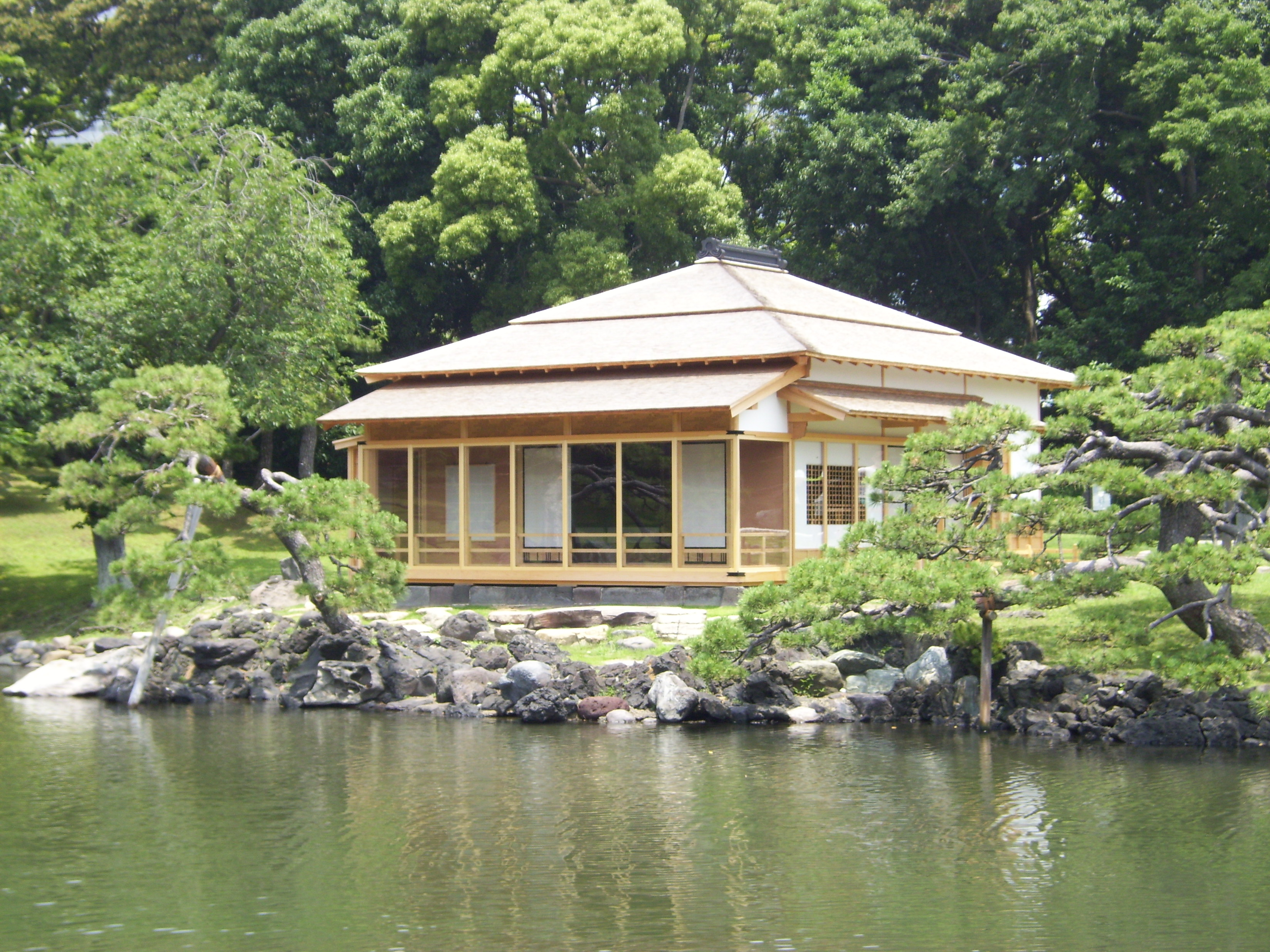 "Tsubame-no-ochaya" (Swallow teahouse) at Hama-rikyū Gardens in Chūō, Tokyo.